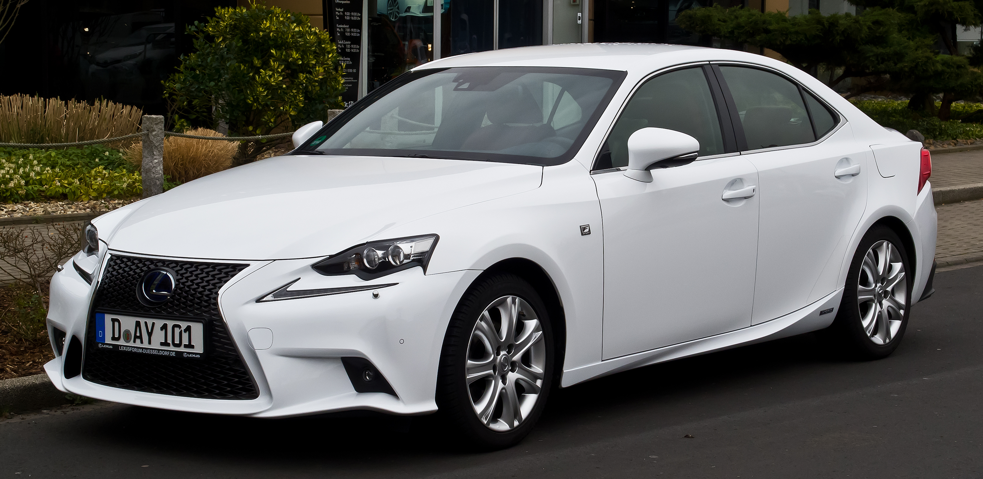 Lexus IS 300h F Sport (III)